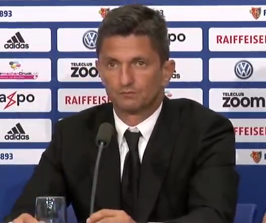 Răzvan Lucescu at the press conference of the 2018–19 UEFA Champions League Second qualifying round match against FC Basel